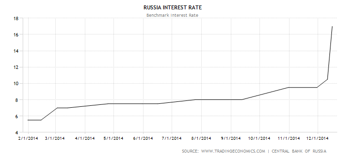 Russian Key Interest Rate 2014